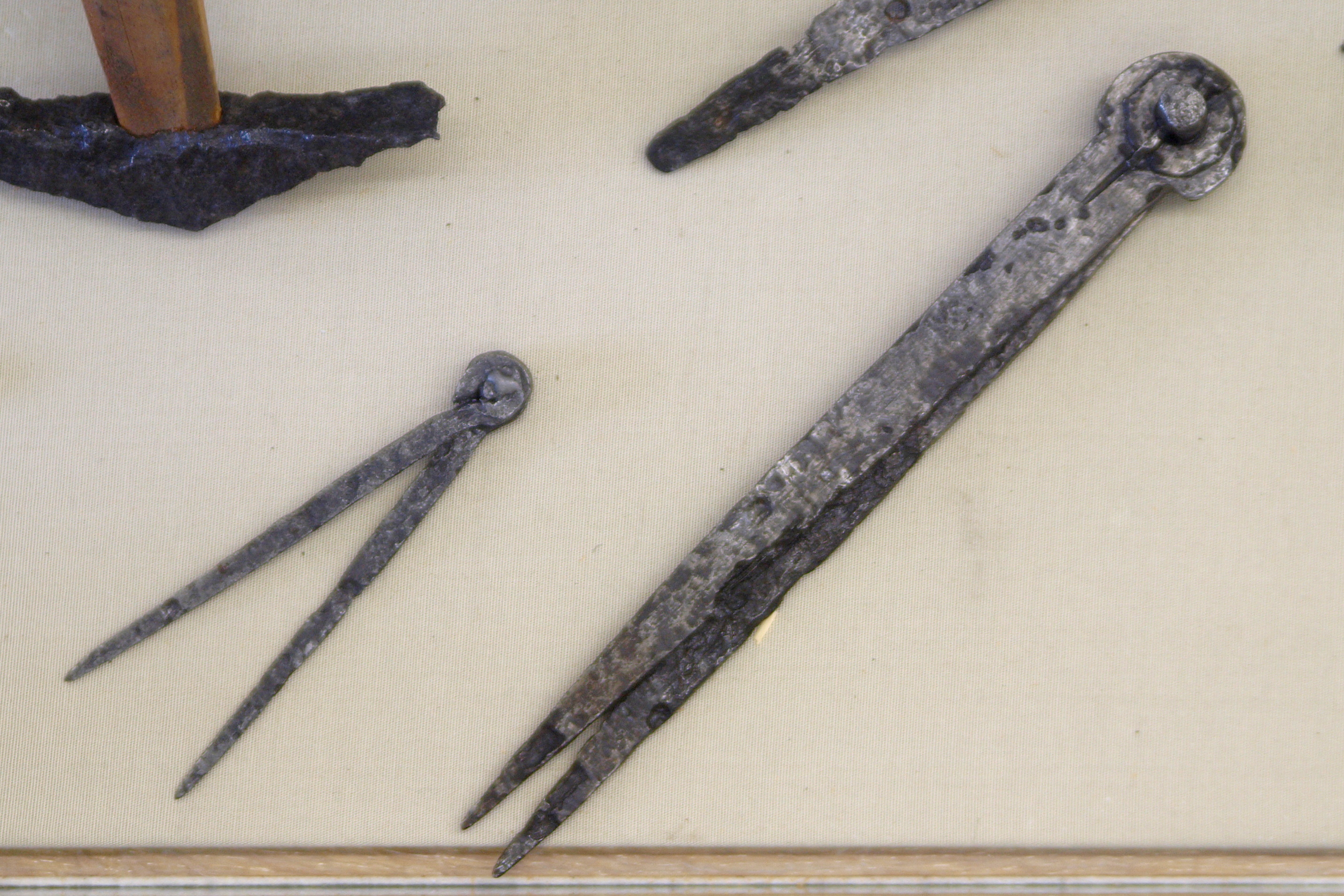 Two Roman Compass_Cambodunum, Kempten, Bavaria, Germany. Dated to ca. 1st to 3rd century AD.